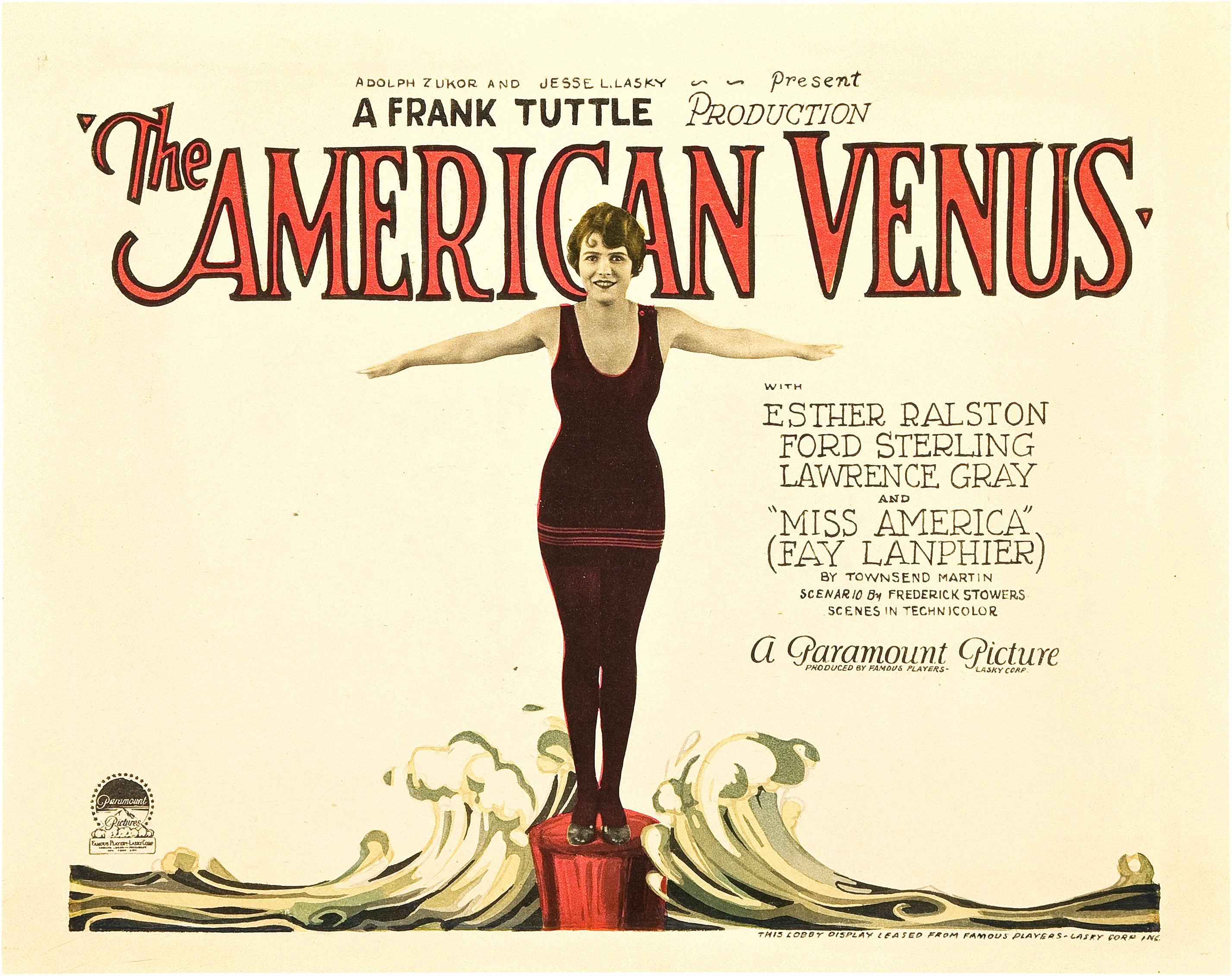 Lobby card for the American comedy film The American Venus 1926.